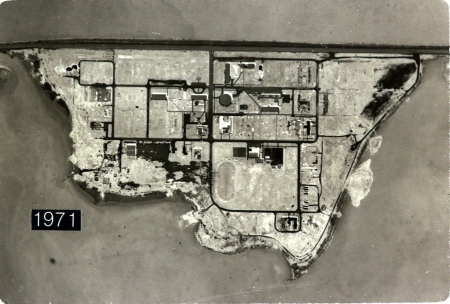 Ward Island Texas in 1971